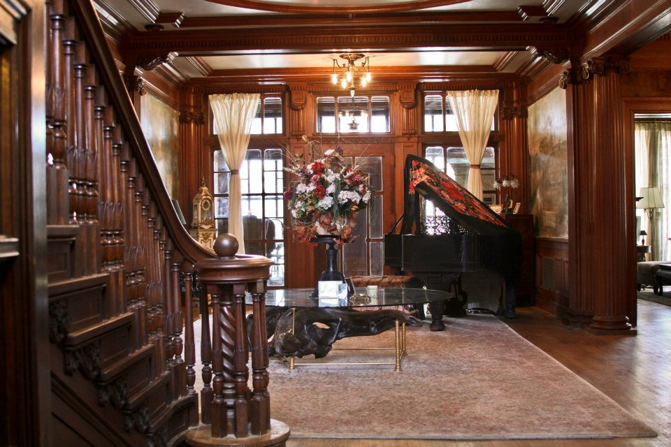 Image of the house at 13 Mansion Road known as The Charles Winship House